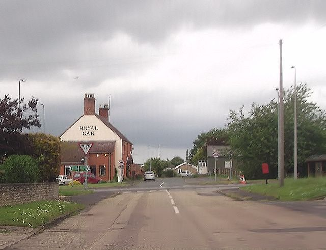 Royal Oak at crossroads in Candlesby